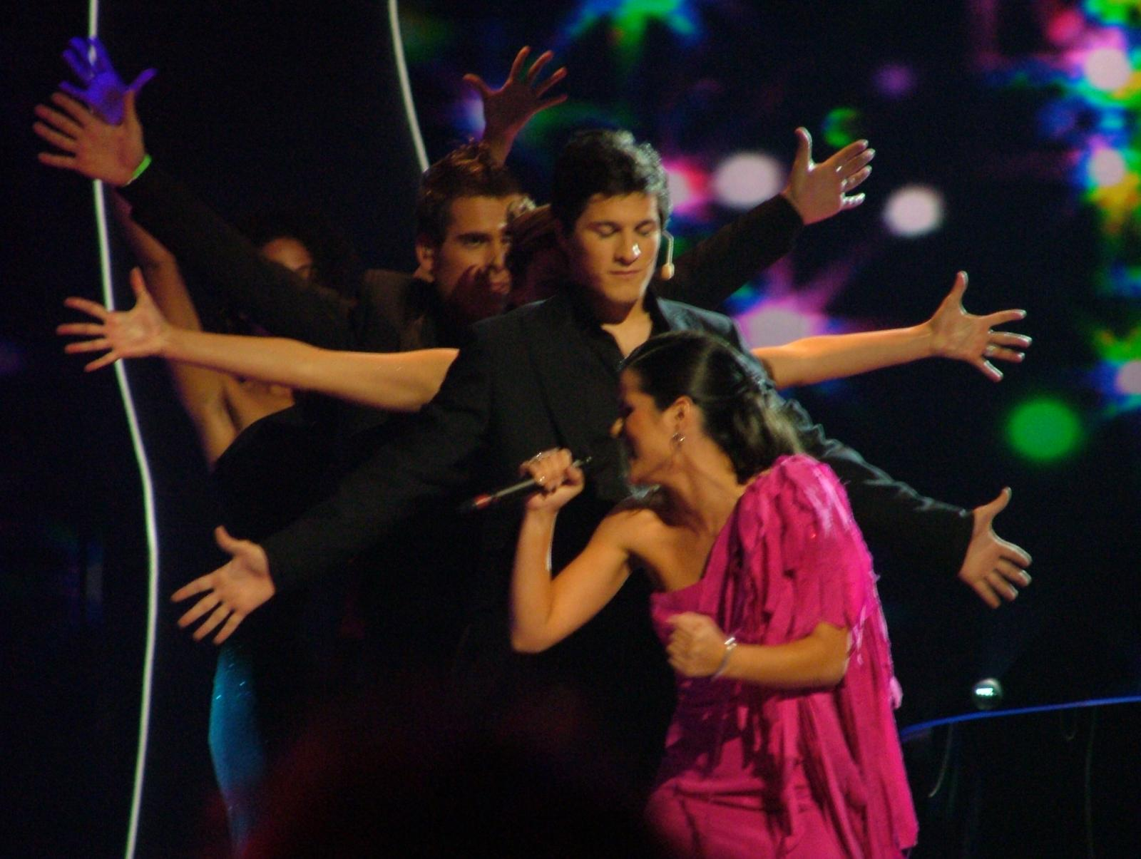 Sofia Vitória performing "Foi magia" at the rehearsals for the Eurovision Song Contest 2004 semi-final.